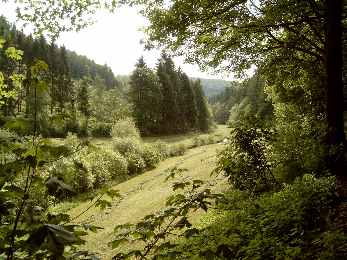 River "Henne" south of village "Oberhenneborn"